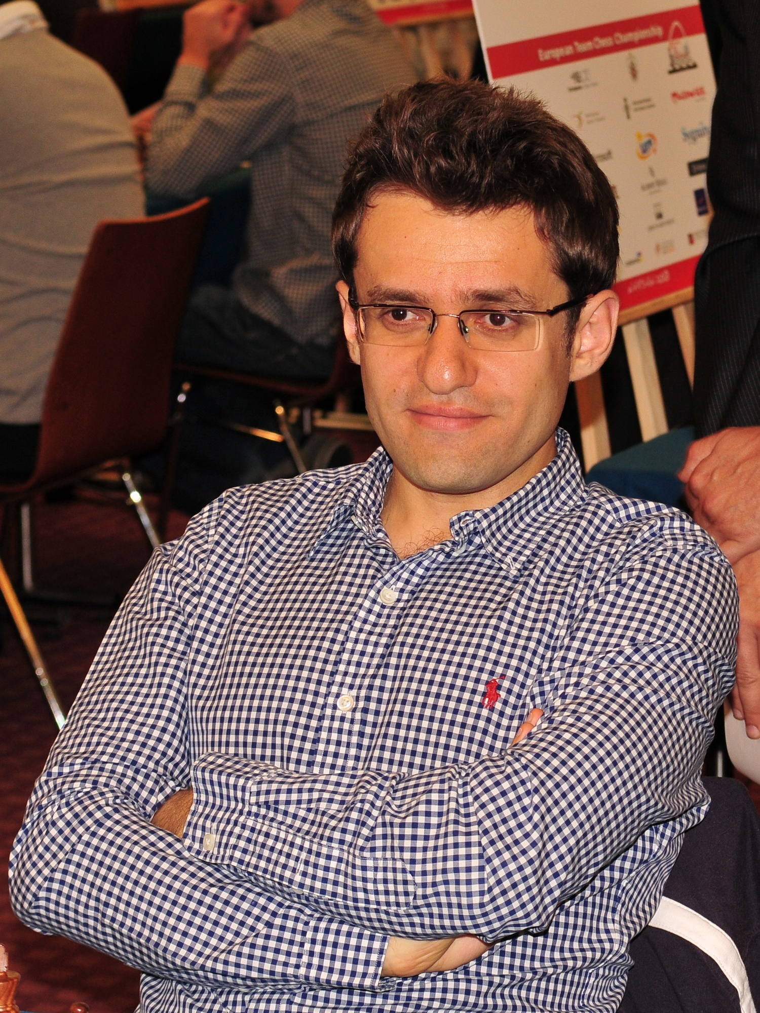 GM Levon Aronian, European Chess Team Championship Warsaw 2013